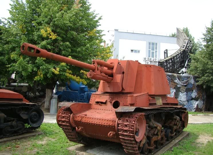 A TACAM R-2 tank destroyer at the National Military Museum (Bucharest, Romania).